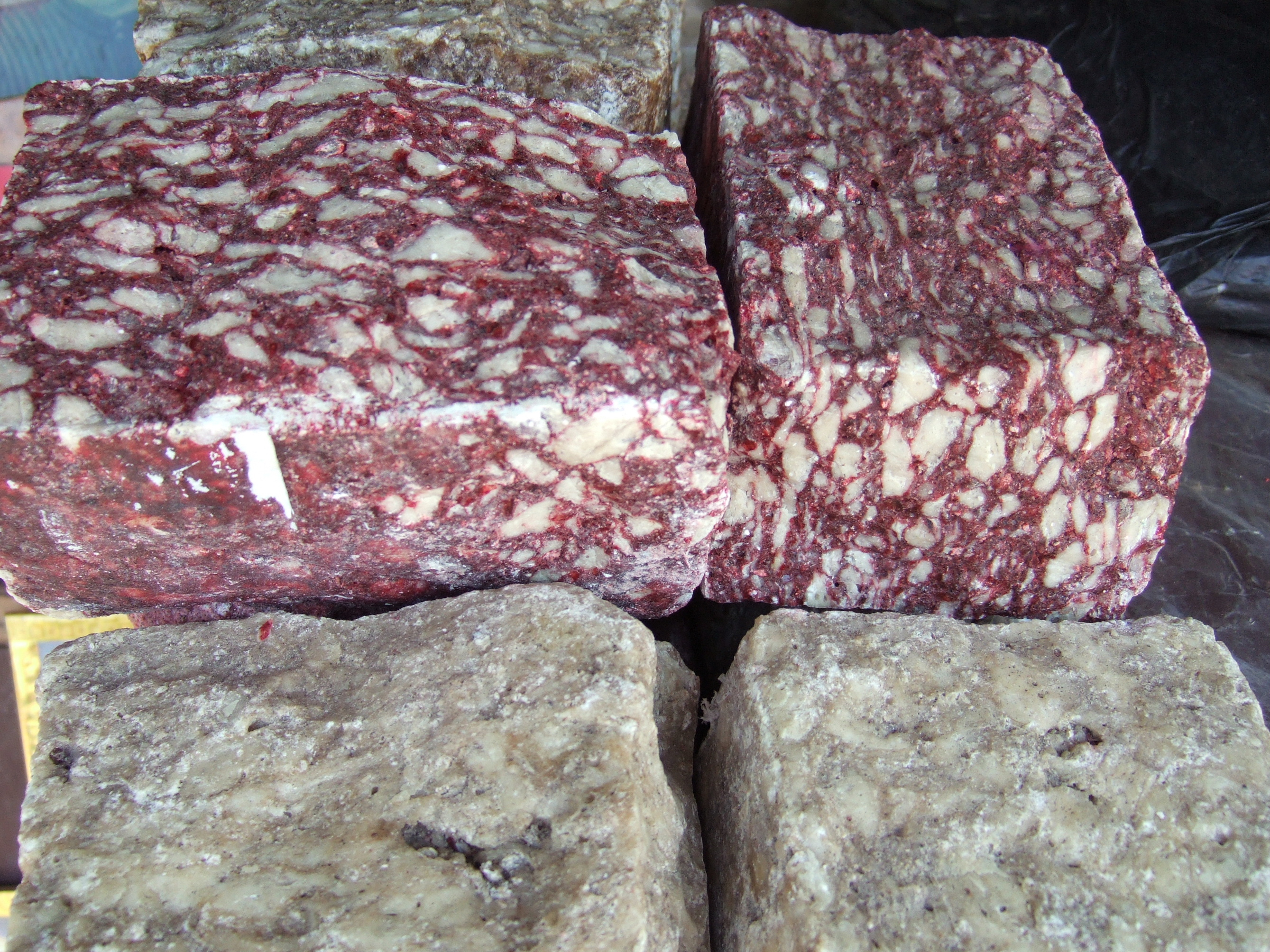 Kemenyan resin or benzoin resin (Styrax benzoin)